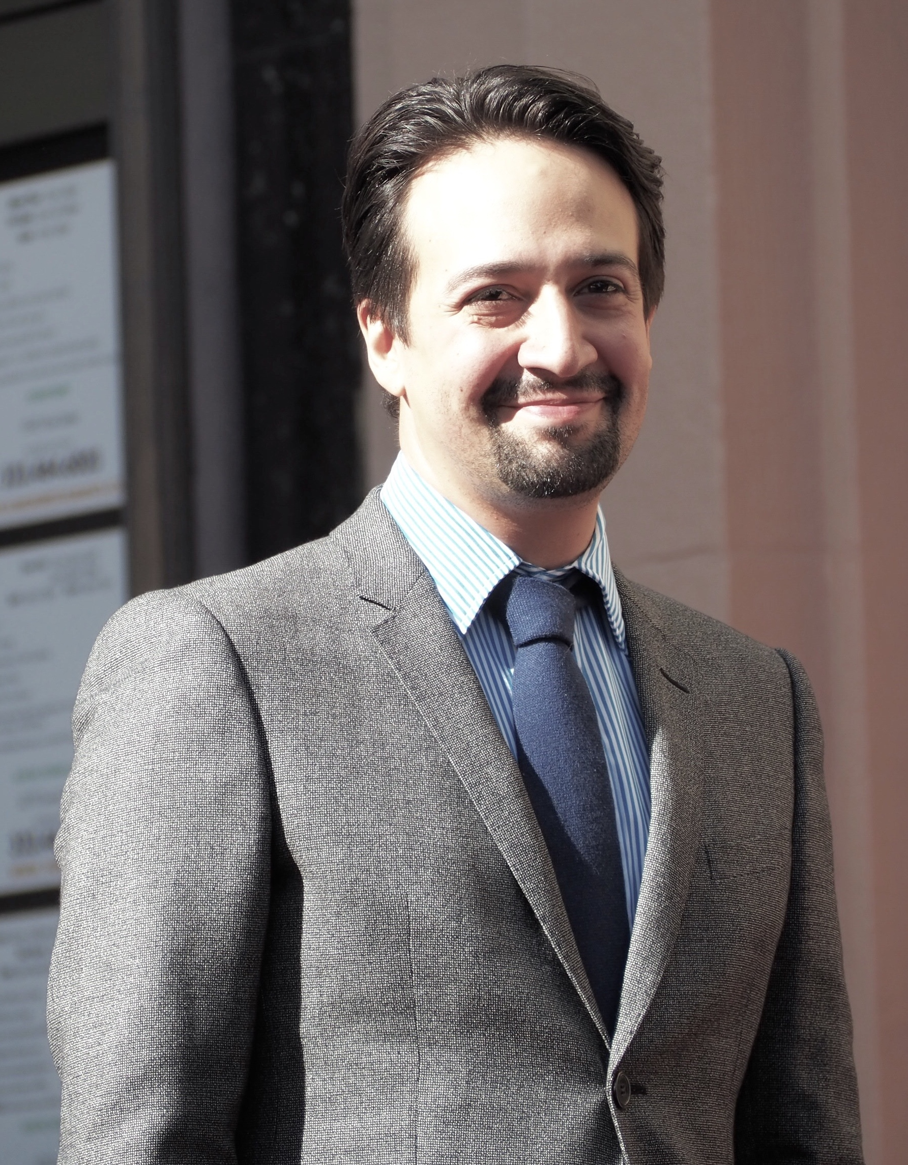 Lin-Manuel Miranda received the 2,652nd star on the Hollywood Walk of Fame on Nov. 30, 2018.